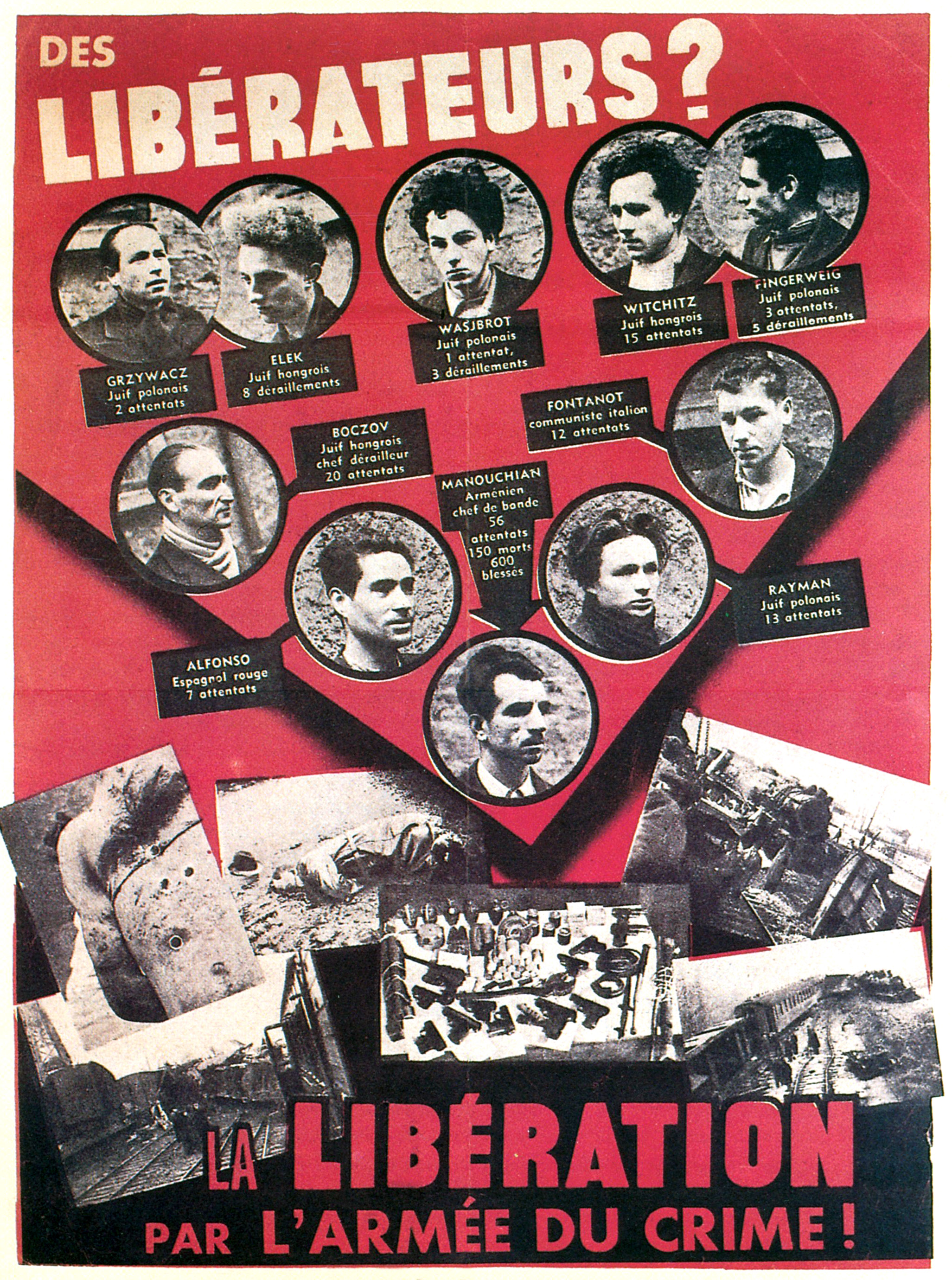 The Red Poster (from French, l'Affiche rouge).